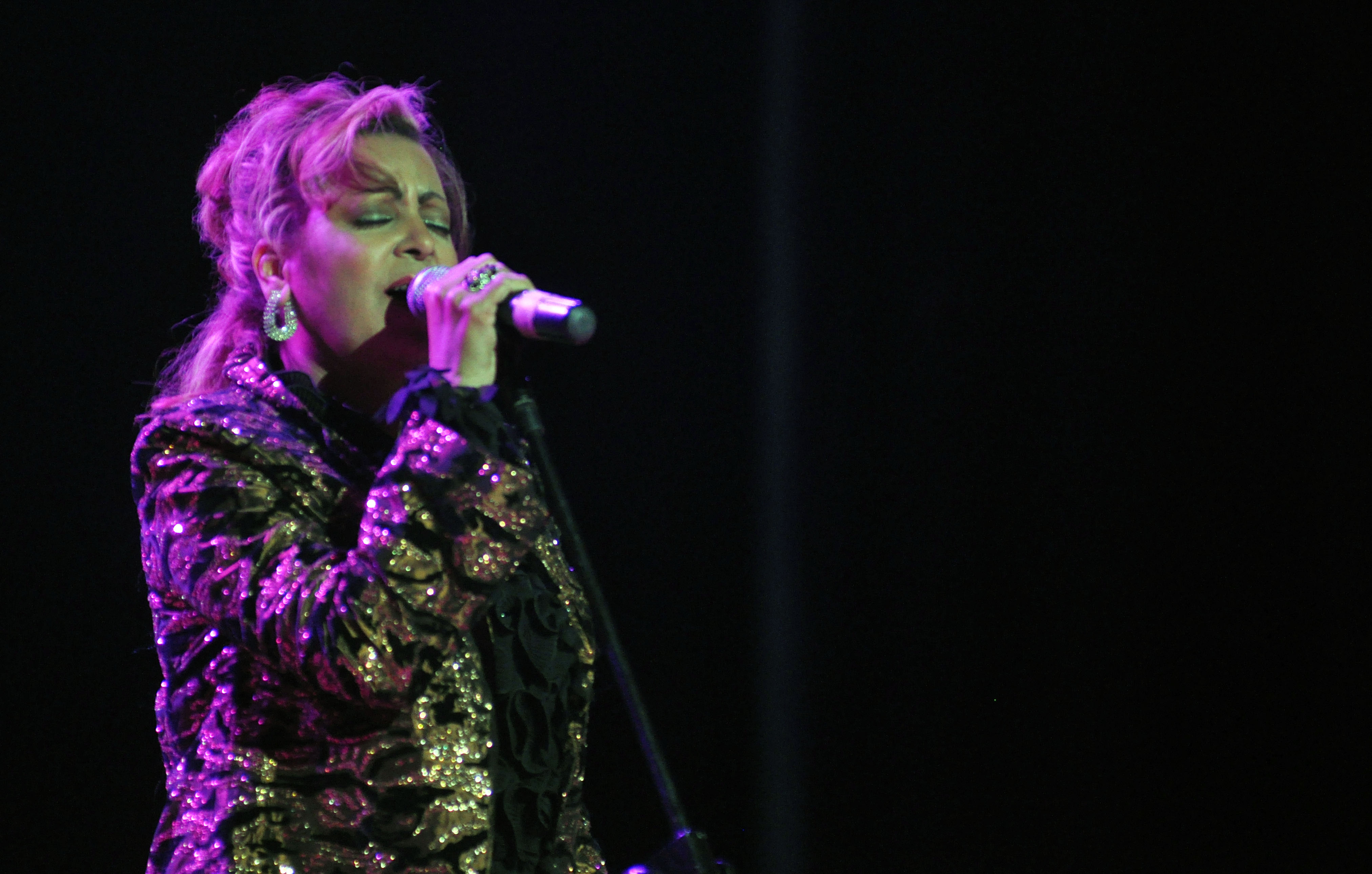 La cantante cubana Mariblanca Armenteros en una de sus presentaciones en vivo al Teatro Nacional de Cuba.